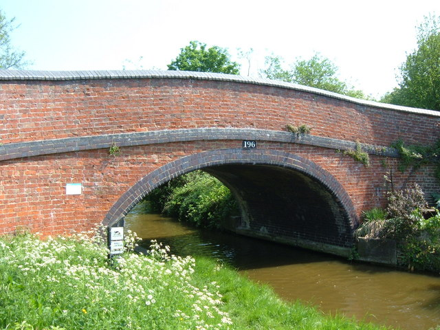 Bridge 196, Oxford Canal: the most easterly of three road bridges on the road linking North Aston and Somerton. The bridge is on the boundary between the two parishes.